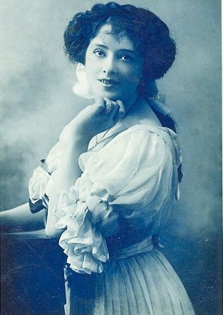 Postcard of Isabel Jay in The White Chrysanthemum 1906